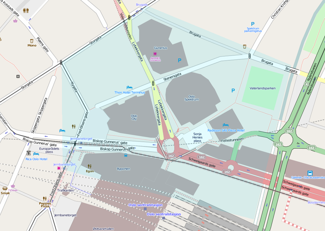 This map may be incomplete, and may contain errors. Don't rely solely on it for navigation.